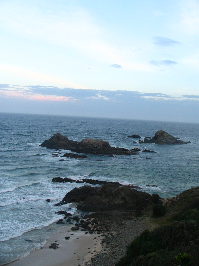 Three Sisters Rock - Broken Head